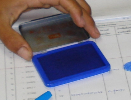 Polling station in , Mokro subdistrict, Amphoe Umphang, Tak Province, Thailand. on December 23, 2007. (Thai general election, 2007)